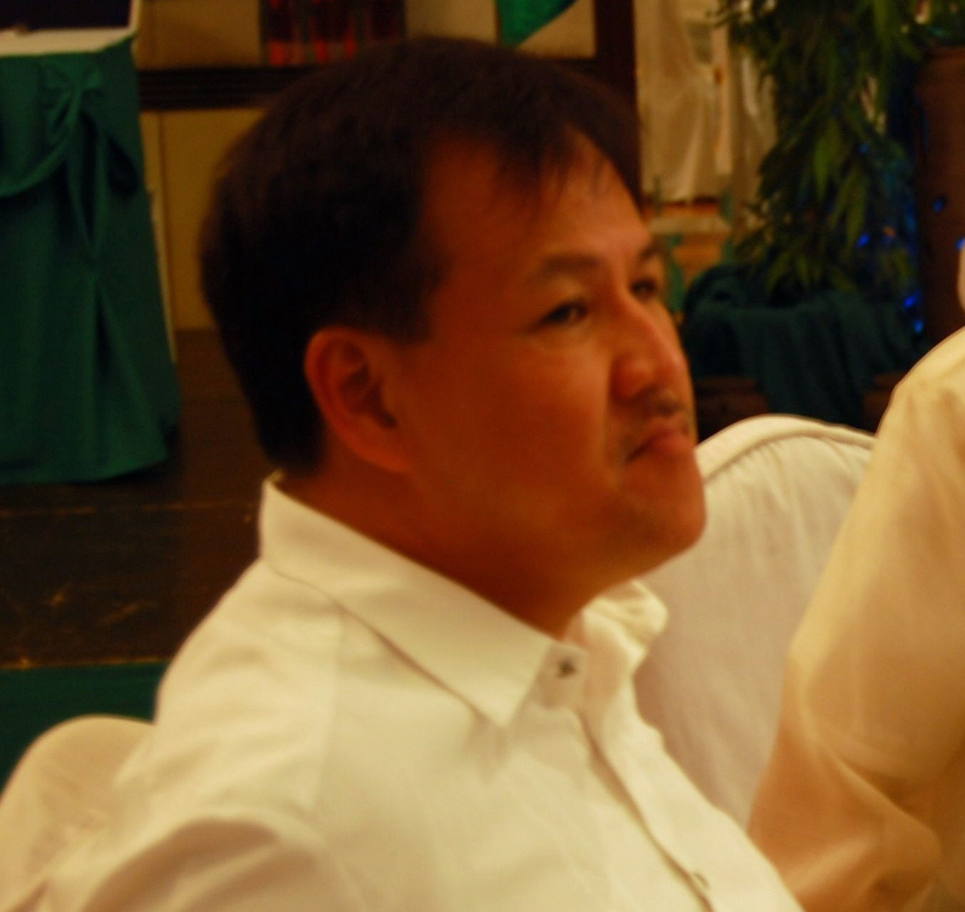 Mayor Jessie Robredo (left) of Naga City was the keynote speaker during PRRM's 55th anniversary celebration. Mayor Robredo was reelected for an unprecedented 5 terms during which he garnered several prestigious awards in exemplary local governance including the 2006 Ramon Magsaysay Award for Government Service, the 1996 Ten Outstanding Young People of the World award, one of the Ten Outstanding Young Men of Philippines, the Konrad Adenauer Medal of Excellence as Most Outstanding City Mayor of the Philippines in 1998, and the Civil Service Commission's first ever “Dangal ng Bayan ” award. He is a faculty member of PRRM's Conrado Institute for Sustainability. Nikon D40 (PRRM 55th Anniversary Celebration, July 2007).